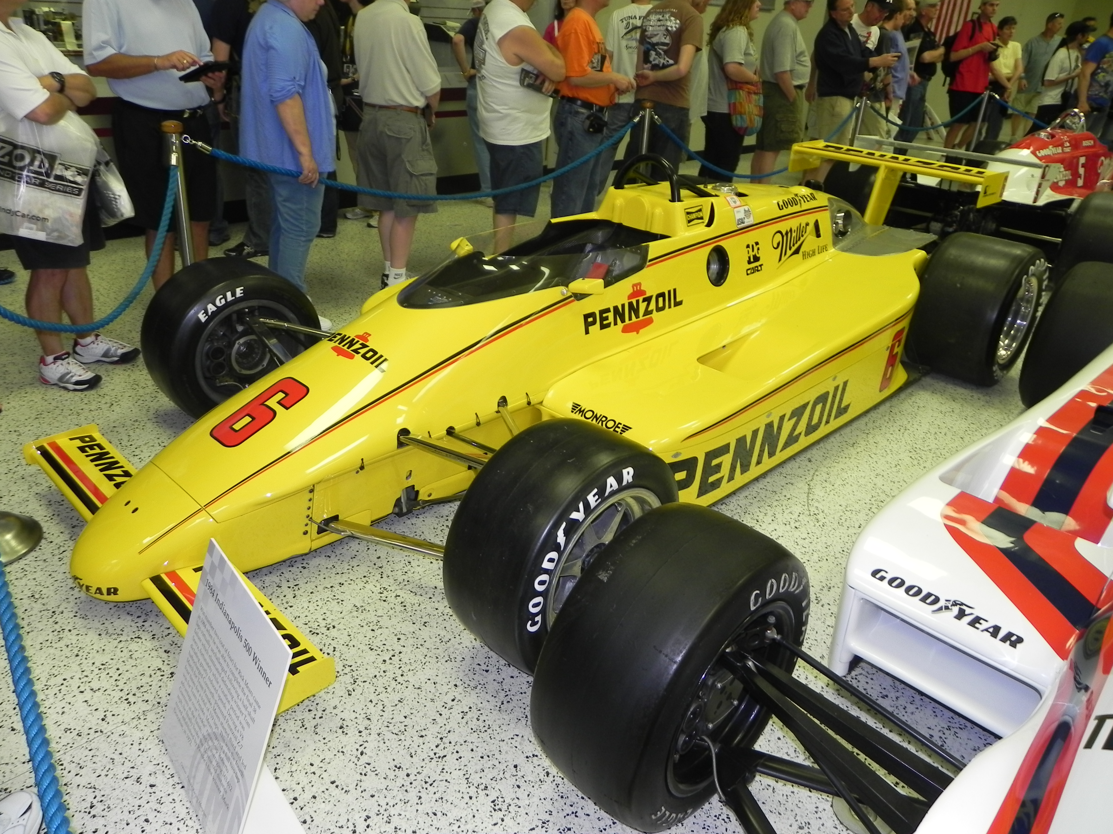 Image of the winning car of the 1984 Indianapolis 500 (Rick Mears). Photo was taken at the Indianapolis Motor Speedway Hall of Fame Museum, during the month of May 2011, at the 100th Anniversary "Ultimate Indianapolis 500 Winning Car Collection."